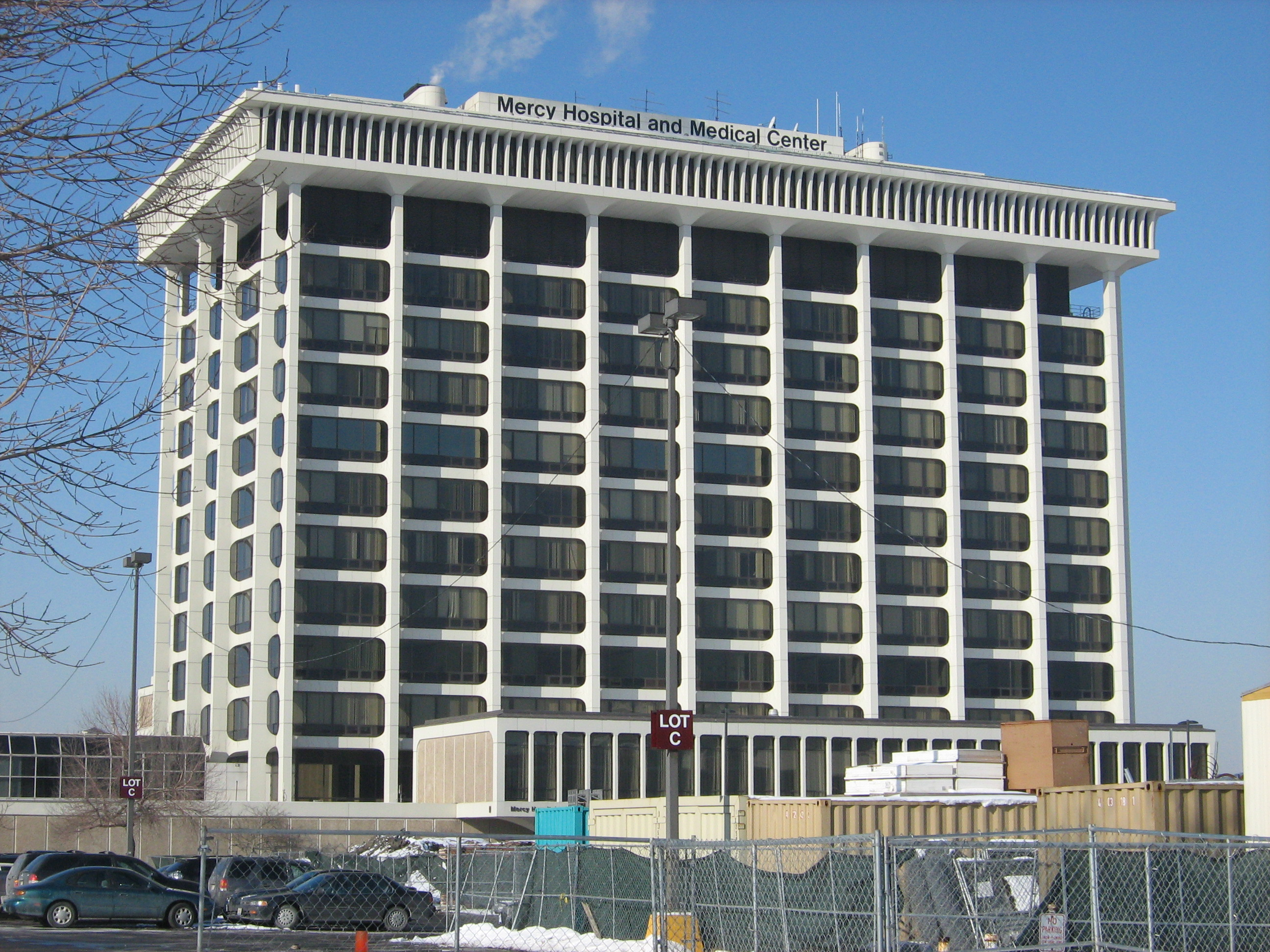 2525 S. Michigan Ave. Chicago, IL 60616 (312) 567-2000